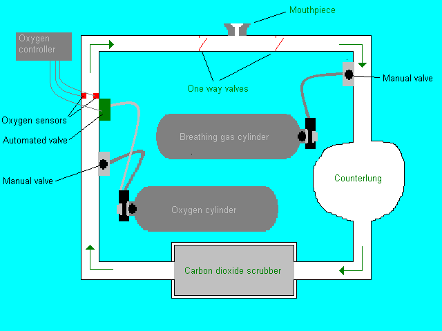 A simplified diagram of a fully closed circuit rebreather